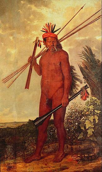 Brazilian indian